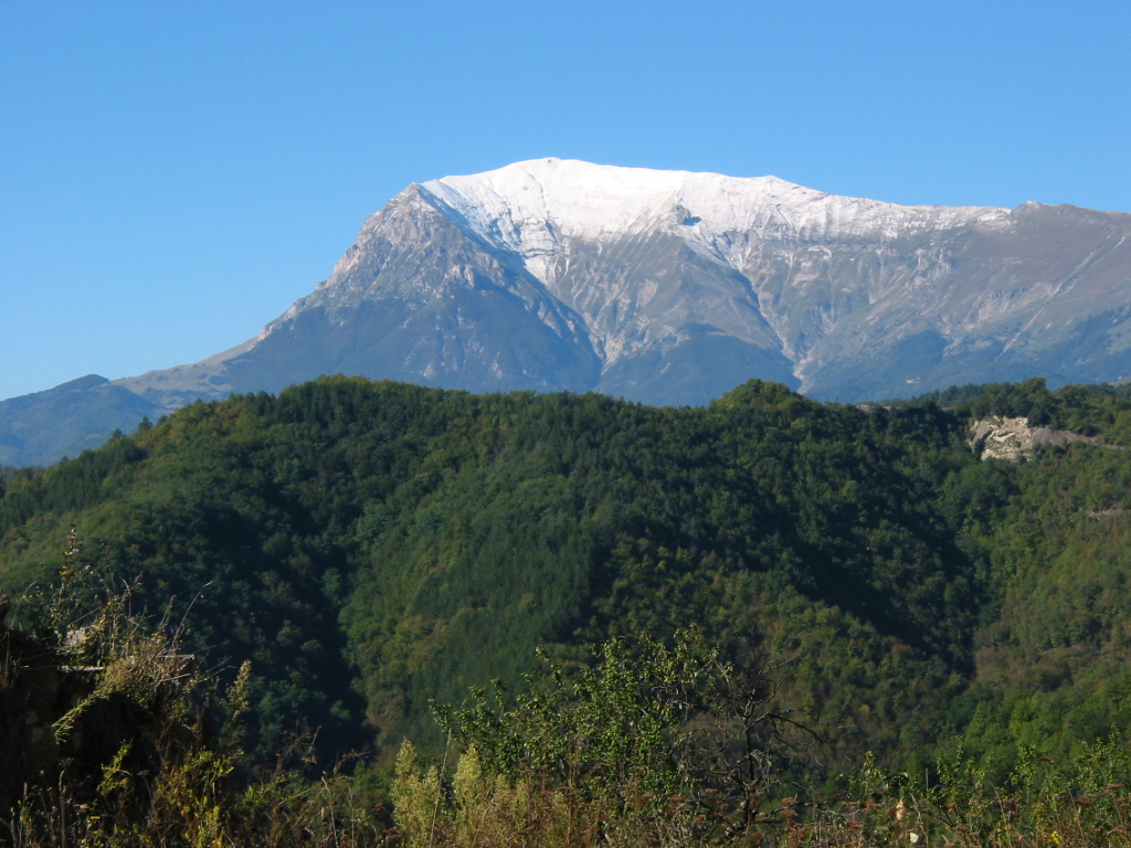 Monte Vettoreott.2.2002 Monte Vettore, mount Vettore the highest Mountain in the Marche 2476 meters